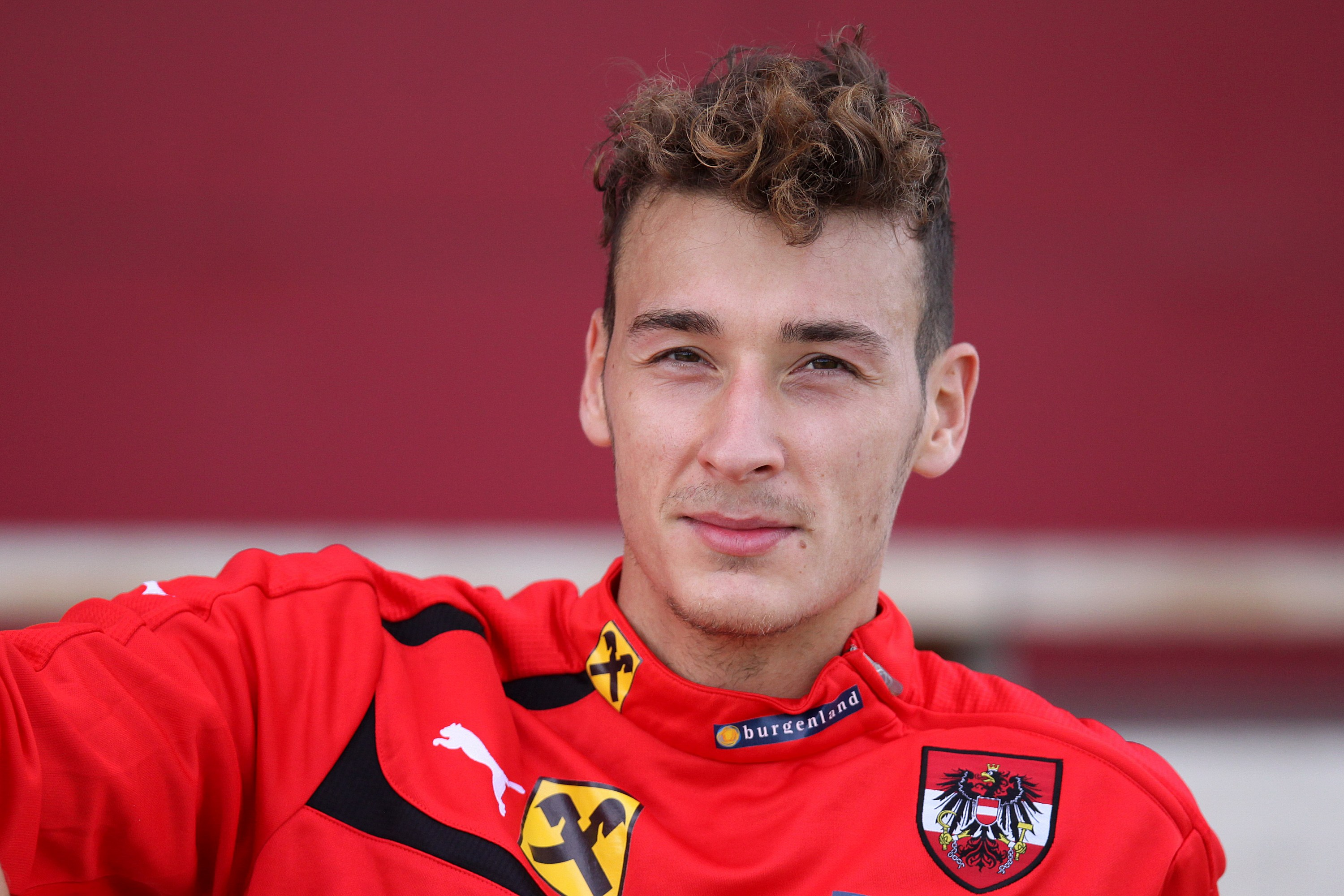 Teamcamp of the Austria national under-21 football team from 9. to 14. Novembber 2015 in Bad Erlach – The photo shows Dominik Wydra (SC Paderborn).